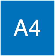 Diagram of road signs of Luxembourg